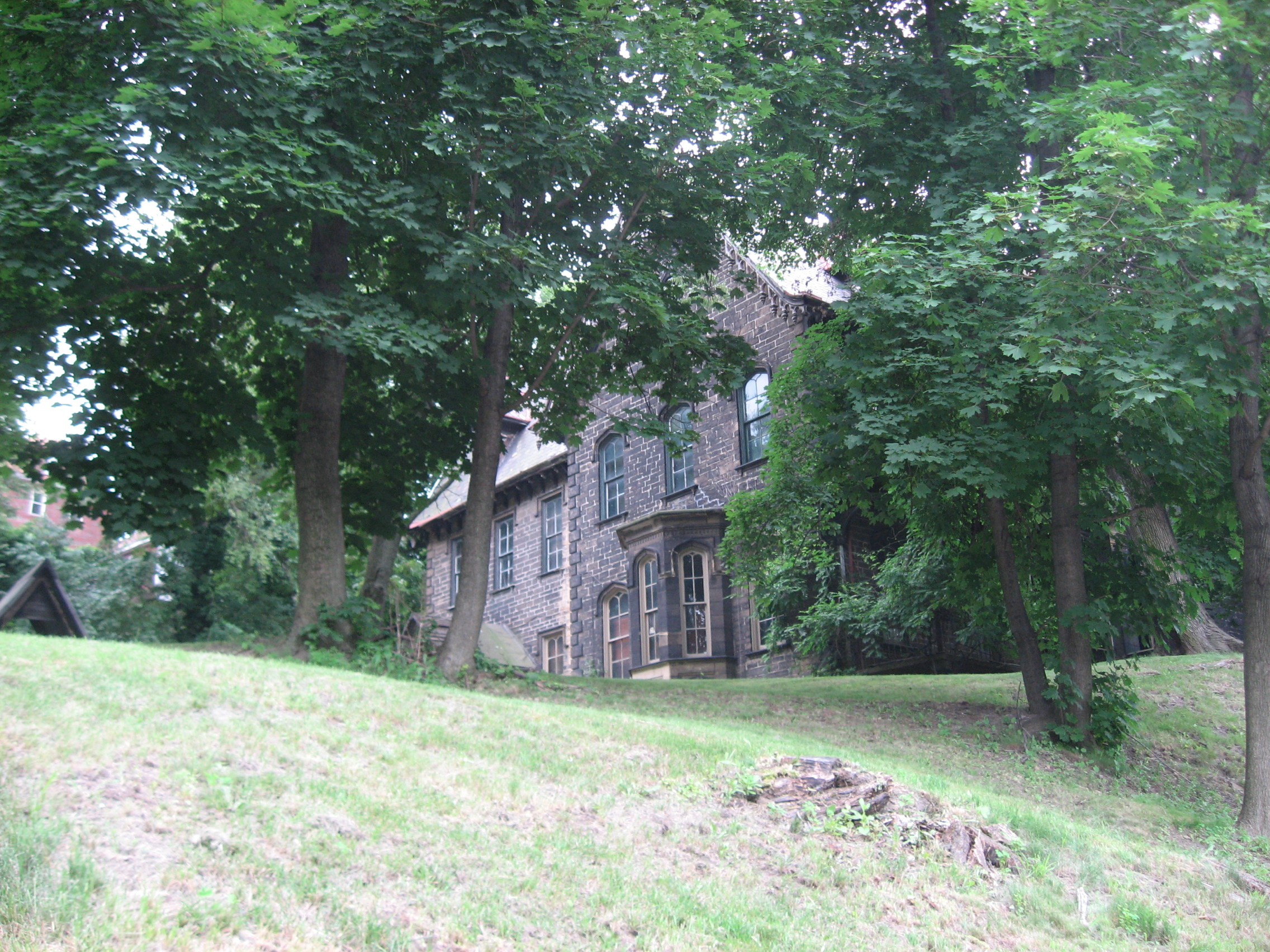 Street view of the John F. Singer House, located at 1318 Singer Place in Wilkinsburg, Pennsylvania, United States. Built in 1865, it is listed on the National Register of Historic Places. Picture does not display the house well, but I could not obtain a better spot, due to a prominently-displayed "No Entry" sign in the driveway.